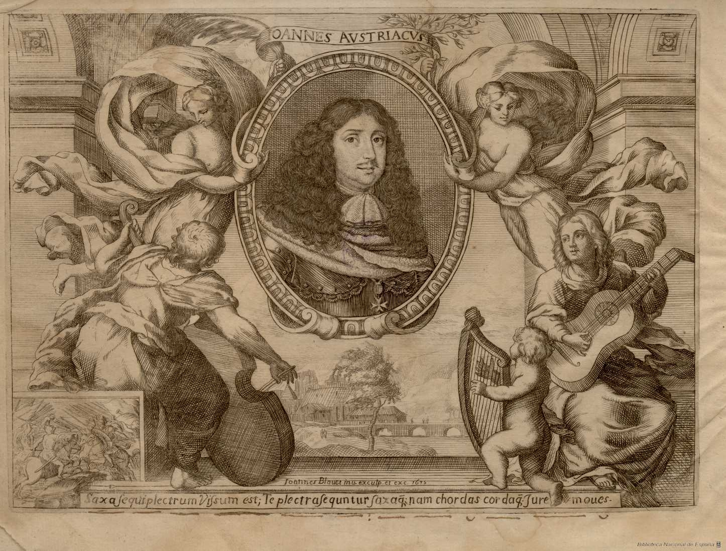 Dedicatory page showing John of Austria from Instrucciòn de Mùsica sobre la Guitarra Española